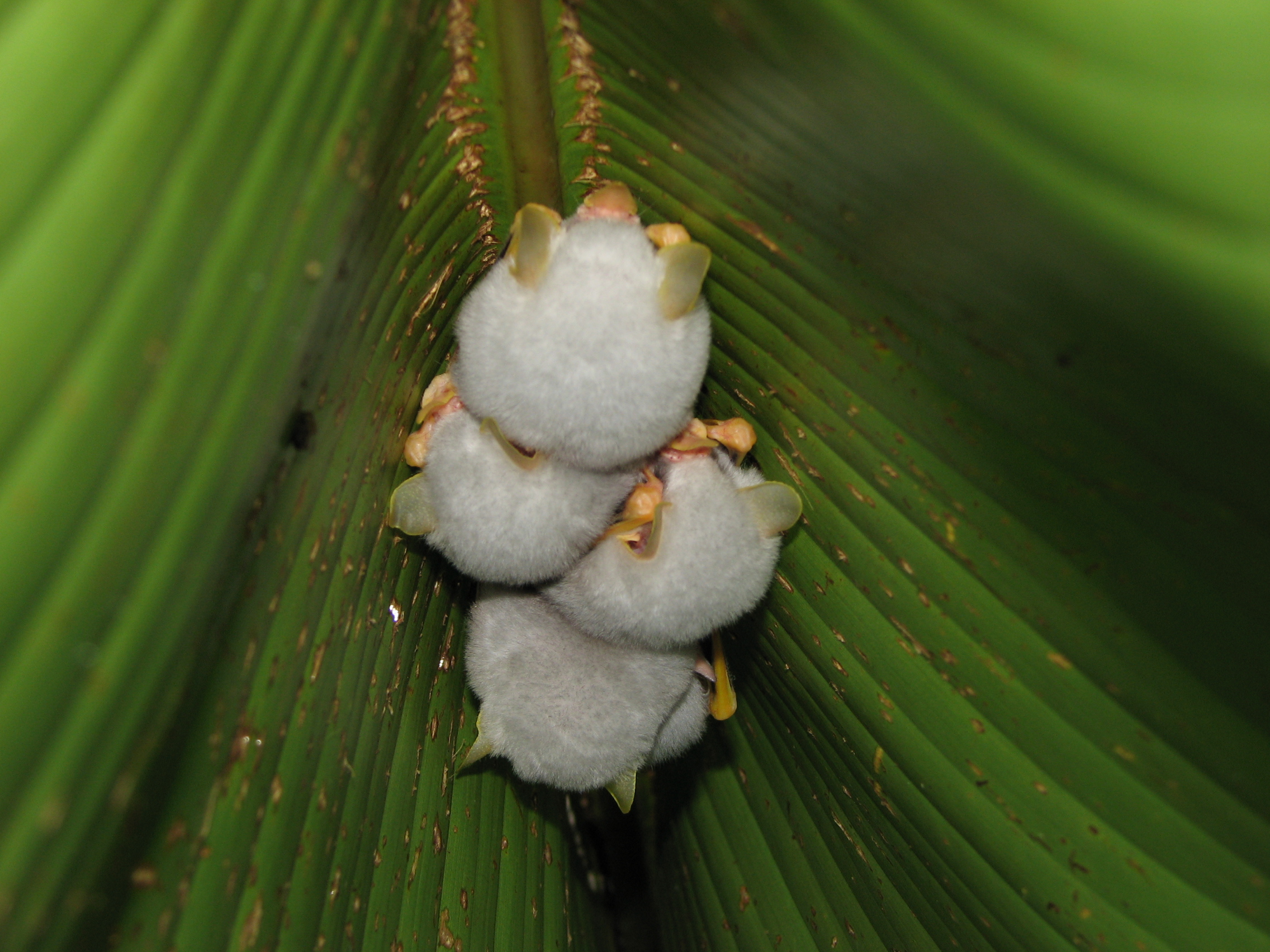 Ectophylla alba (honduran white bat) in Tortuguero National Park, Costa Rica